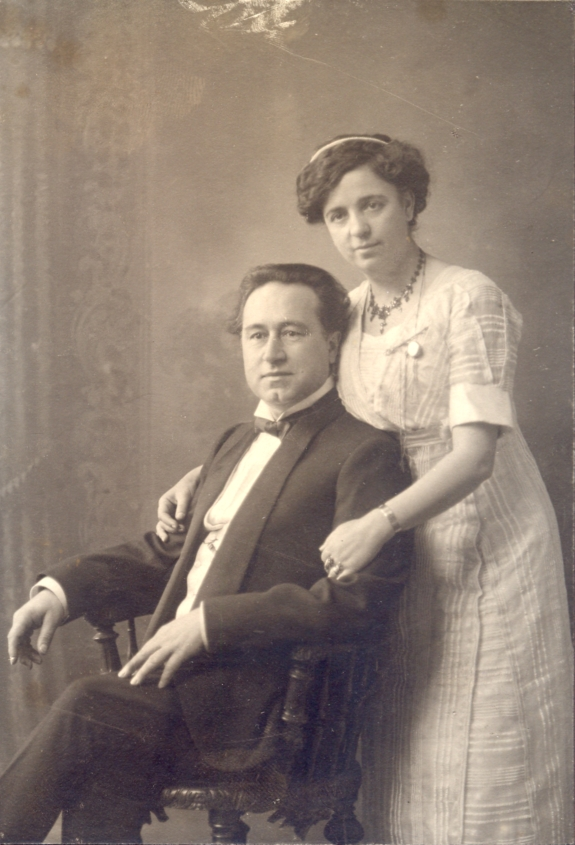 Bulgarian opera vocalist Dragomir Kazakov (1866-1948) with his wife Maria. A photo in the archive of the actor Sava Ognyanov